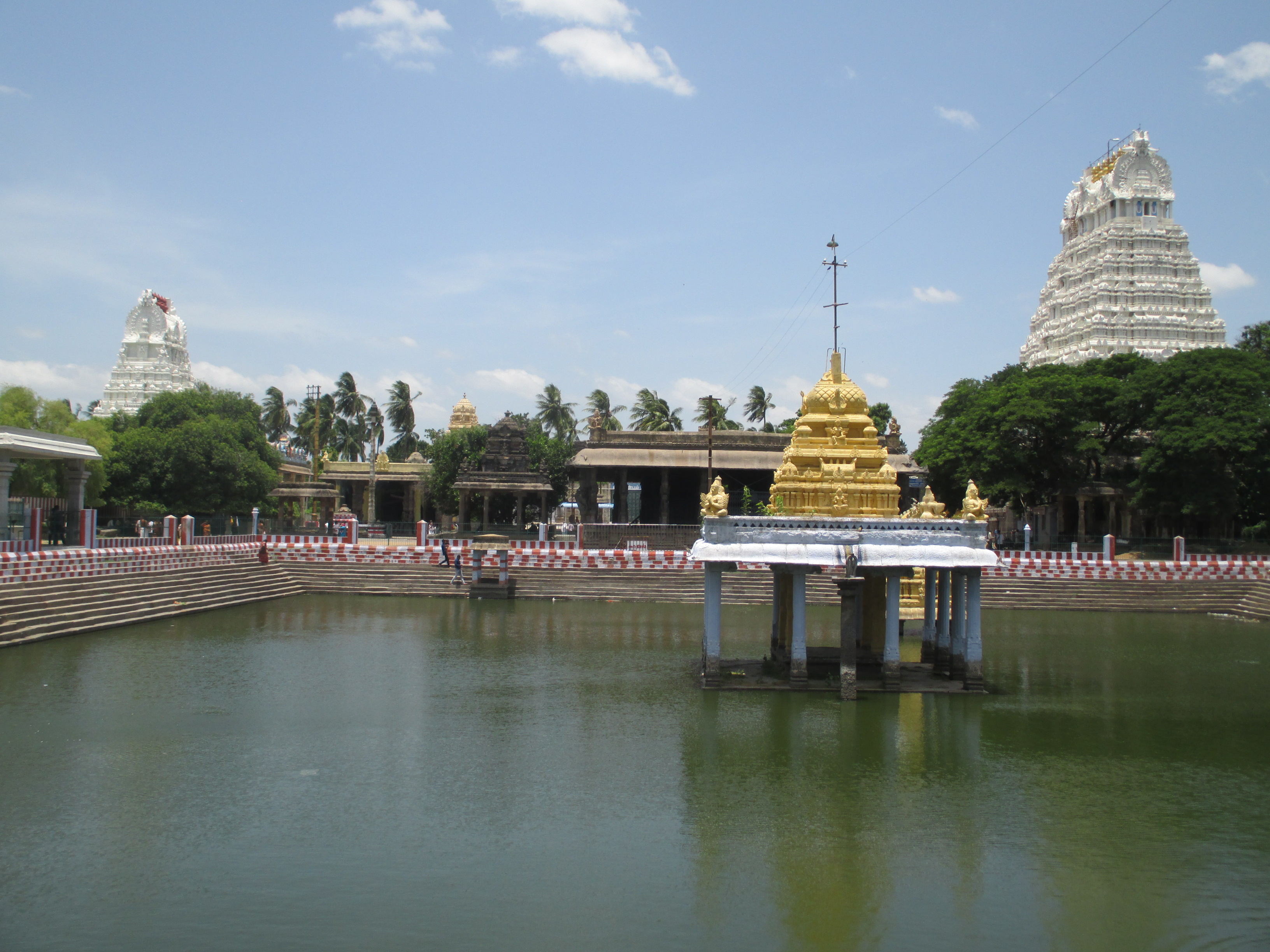 varadharaja Perumal temple